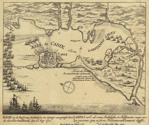 Contemporary map of the Battle of Cadiz 1702